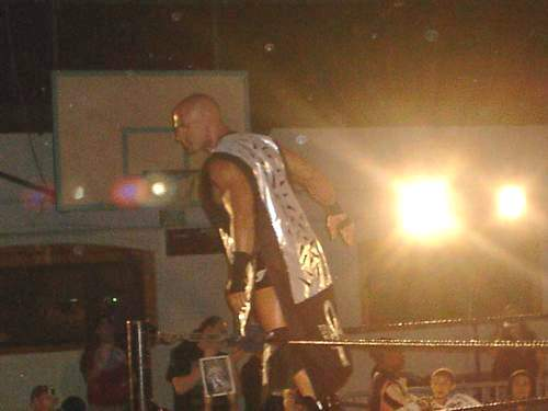 Wrestler Christopher Daniels. Taken by me at an indy show in 2005